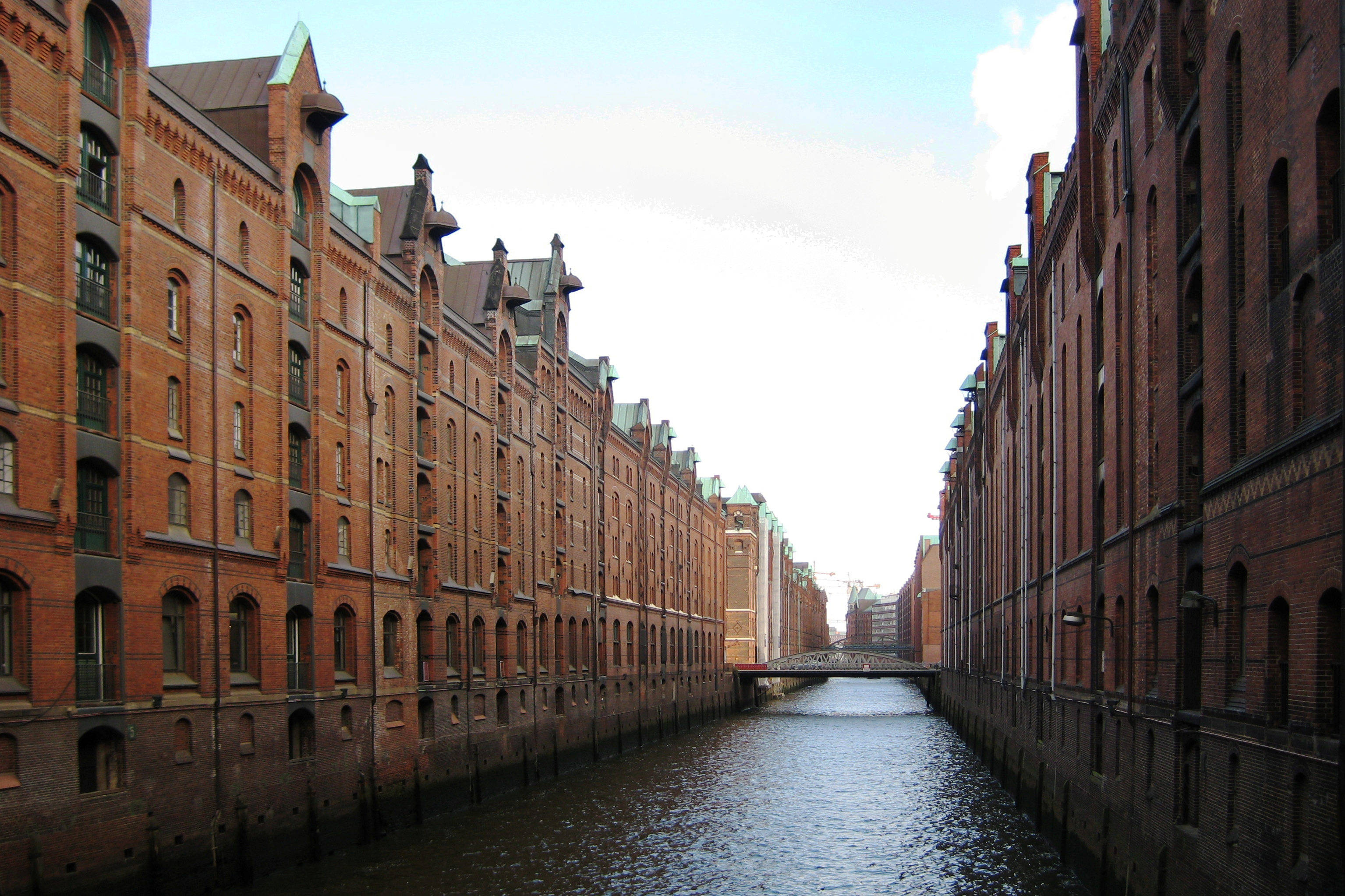 Hamburg has more canals than Venice